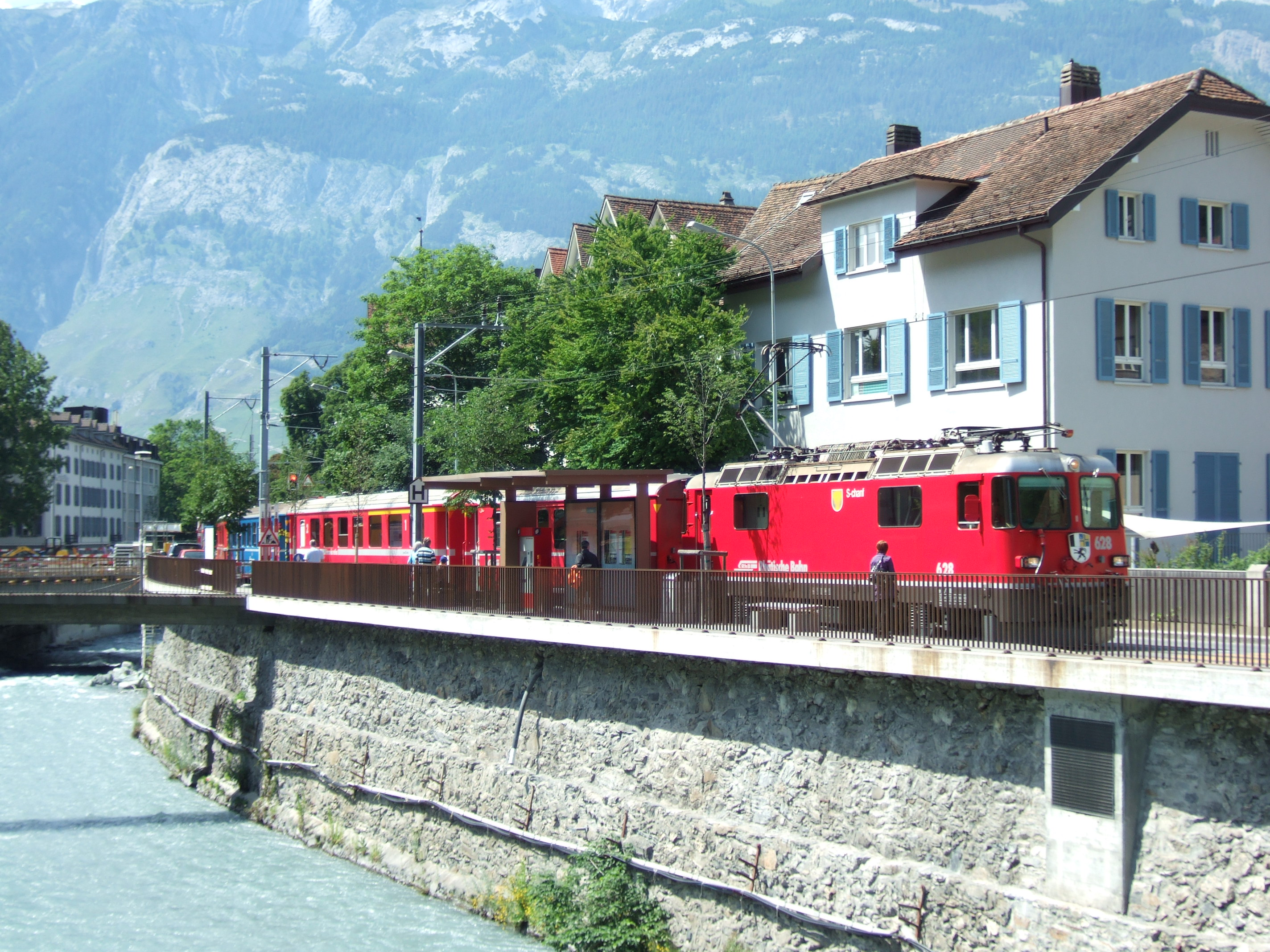 Chur Stadt (RhB) in Switzerland